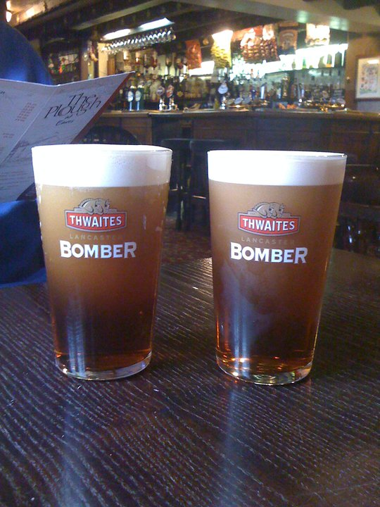 Two pints of Thwaites' "Lancaster Bomber" bitter.